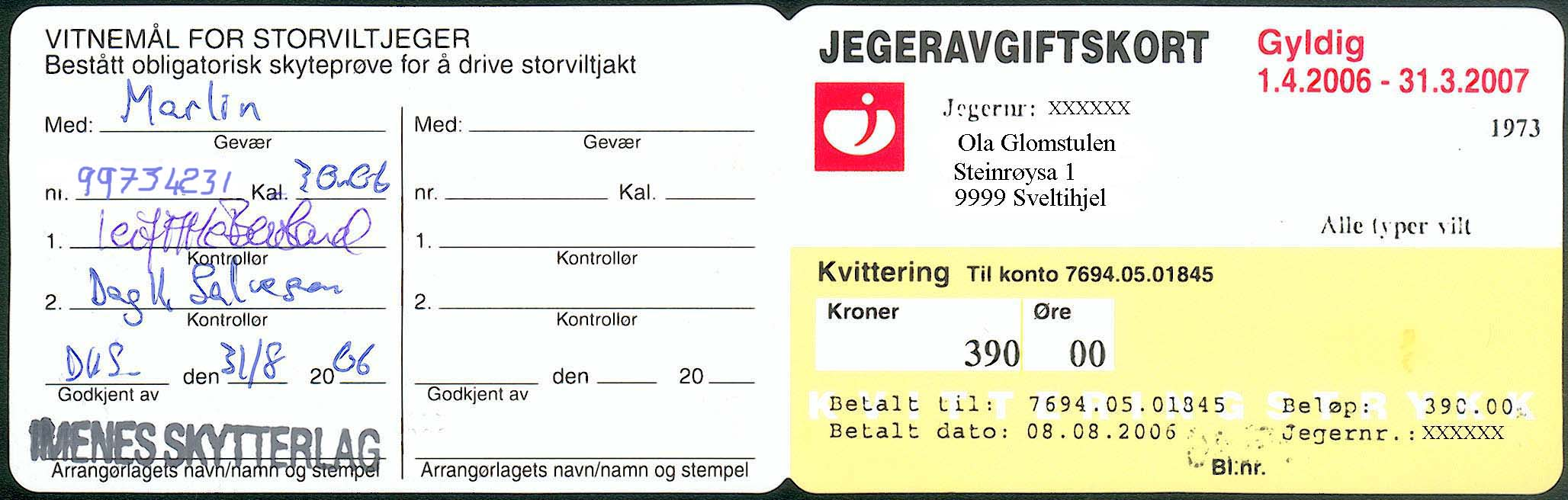 Hunting.license, Norway, 2006/07 Backside.